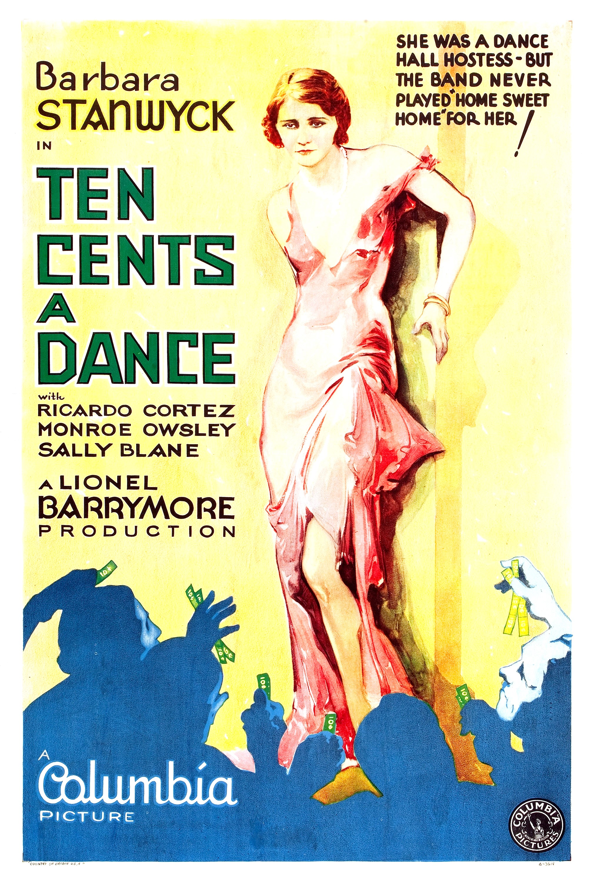 Poster for the 1931 film Ten Cents a Dance. There are no copyright markings pertaining to the image as can be seen in the links above. At bottom is Country of origin USA, and a triangle with "-" and 3614 next to it.